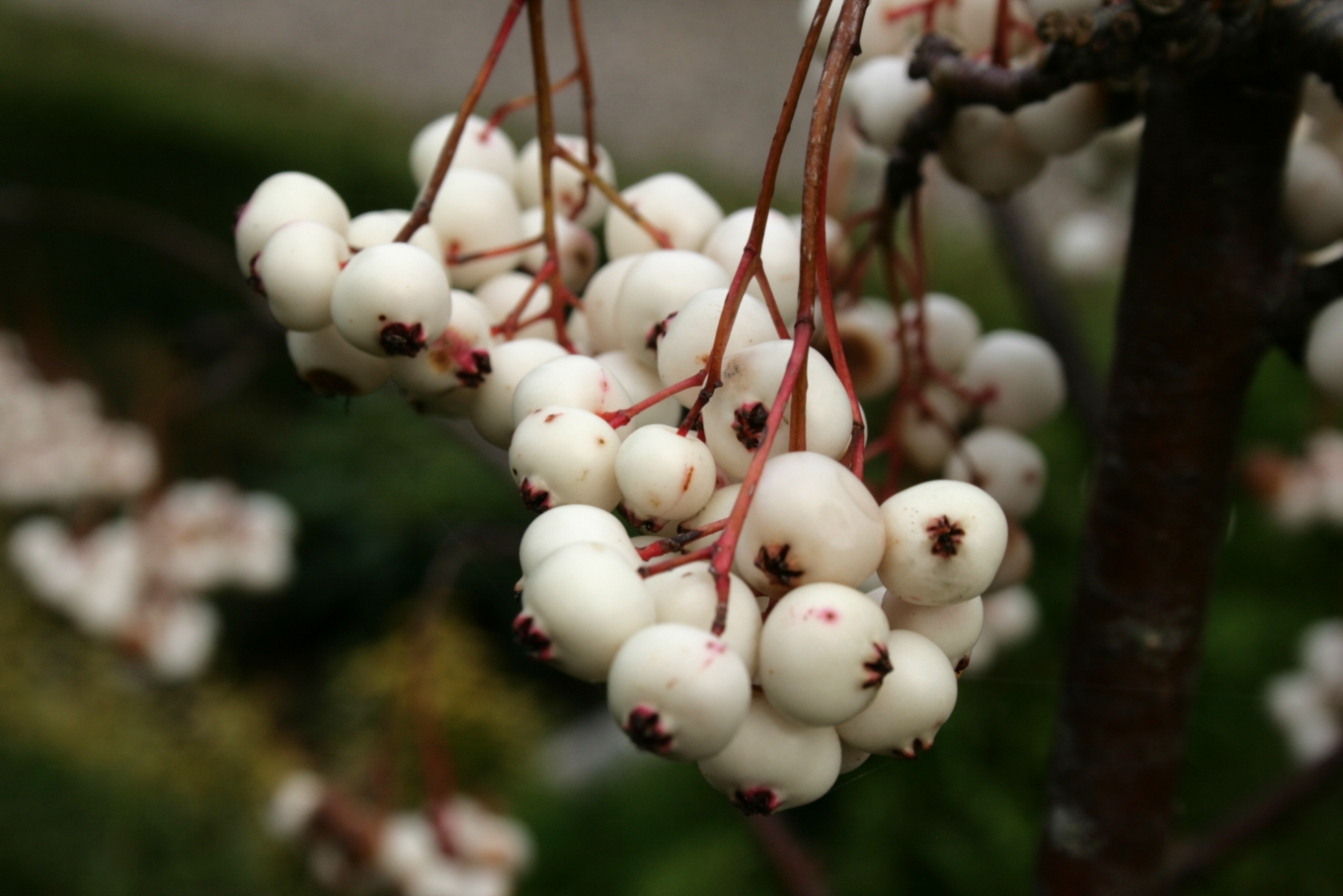 Sorbus koehneana: Fruits